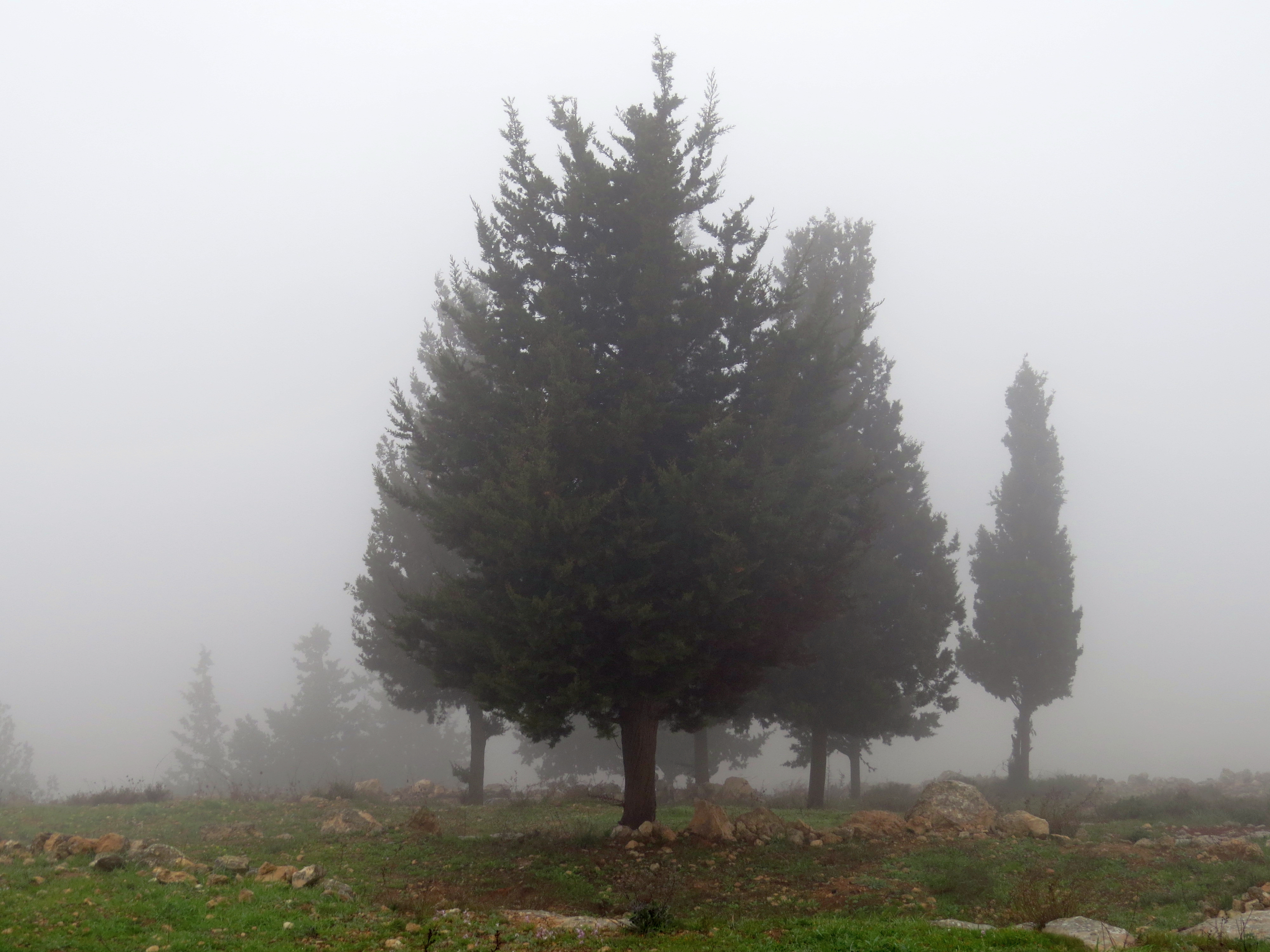 A Foggy Day in As-Samu